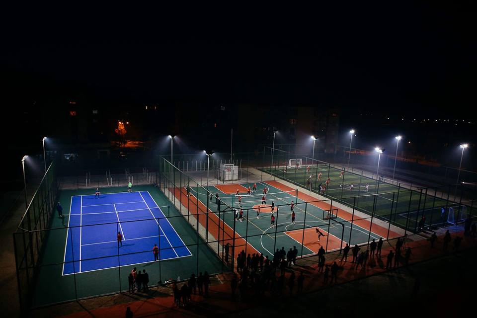 Këto ambiente sportive janë të hapura edhe për qytetarët e Korçës të cilëve u ofrohen fusha futbolli, basketbolli, volejbolli dhe tenisi.